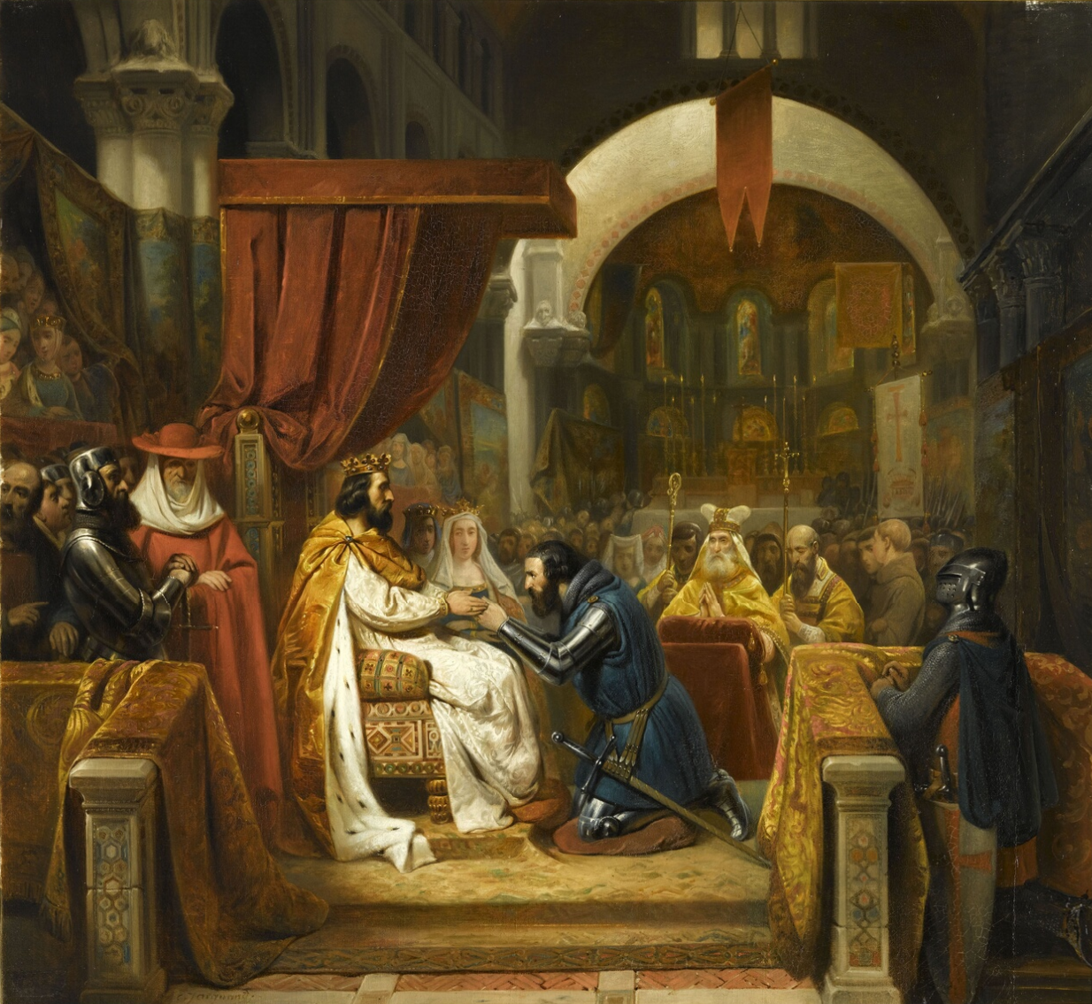 Henry of Burgundy receives the investiture of the County of Portugal, in 1096, from King Alfonso VI of León and Castile.